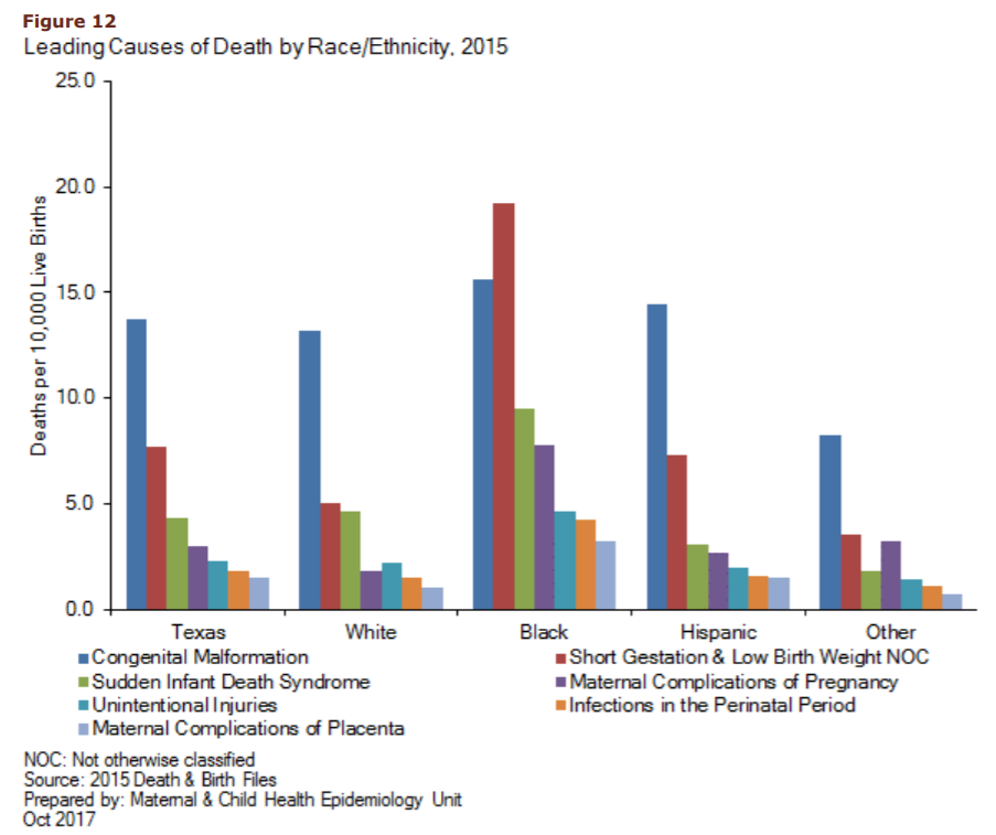 2017 Healthy Texas Babies Data Book, Leading Causes of Death by Race/Ethnicity, 2017 HTB Infant and Maternal Health Data